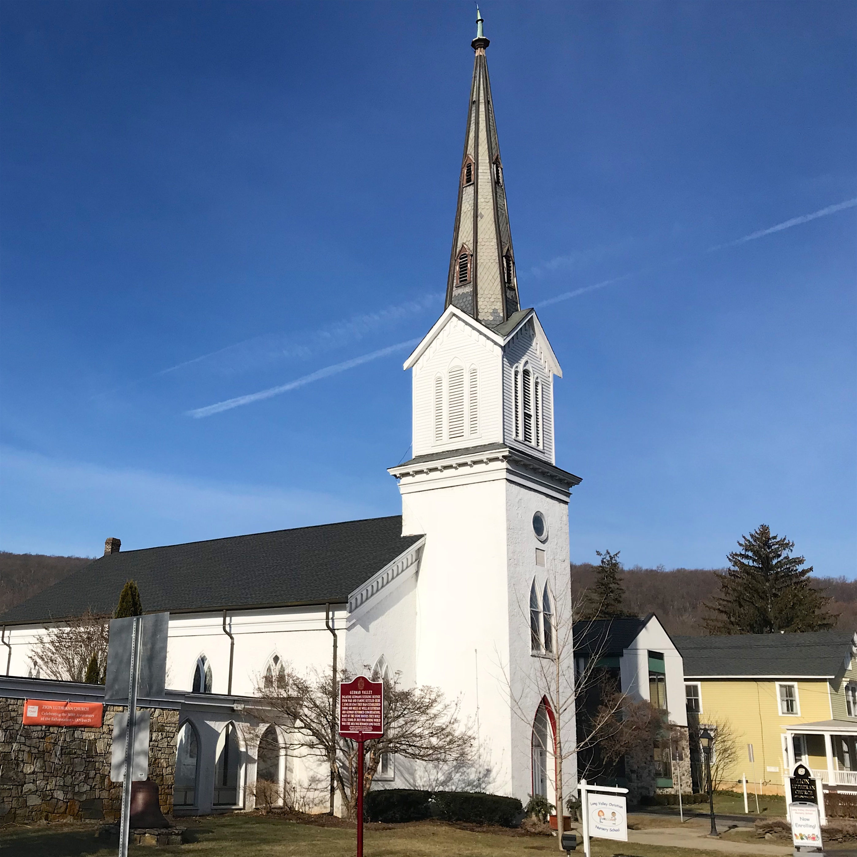 The Zion Lutheran Church in Long Valley, New Jersey. Key contributing structure #27 in the German Valley Historic District.